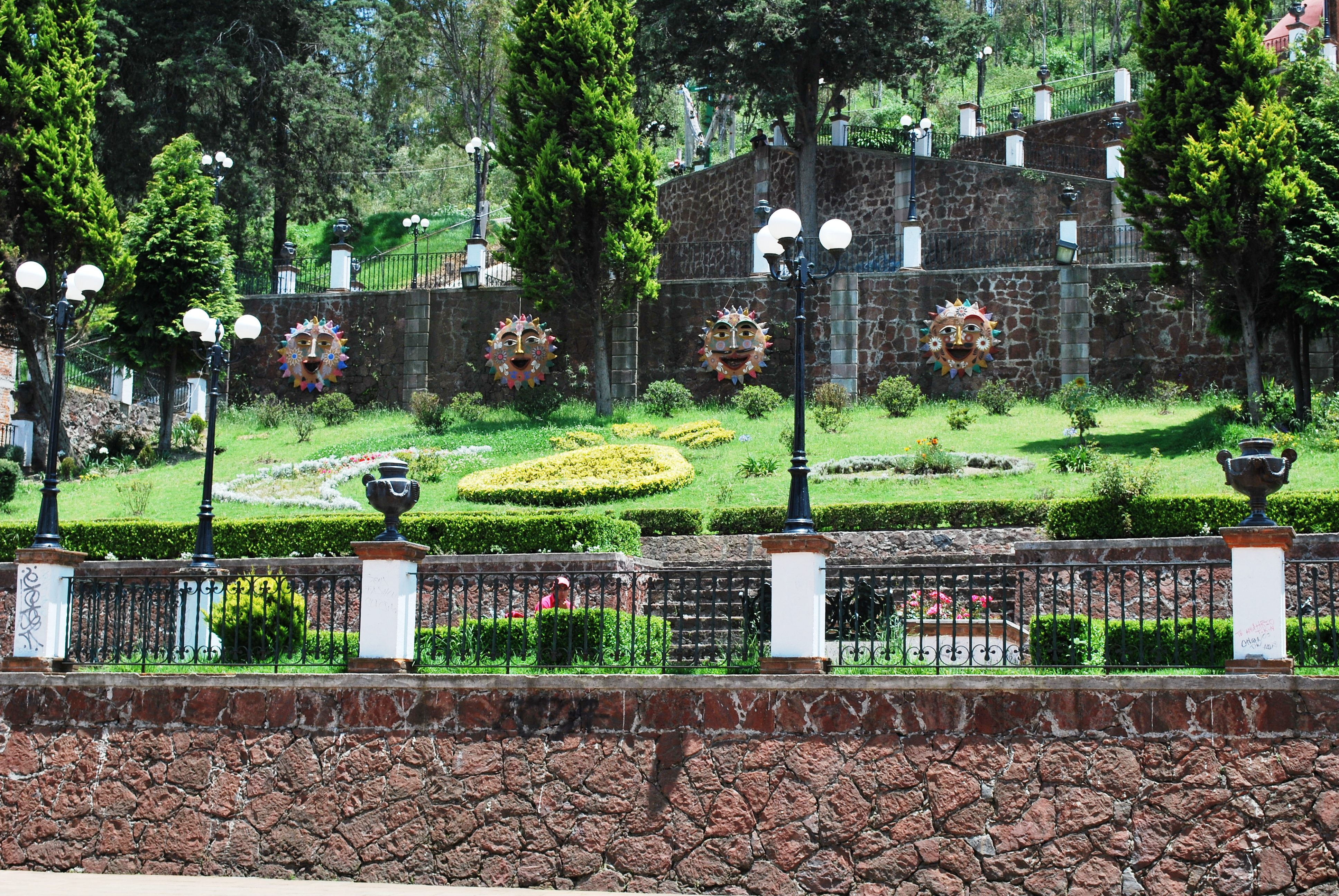 Part of the front atrium of the Capilla del Calvario in Metepec, Mexico State showing large pottery decorative suns